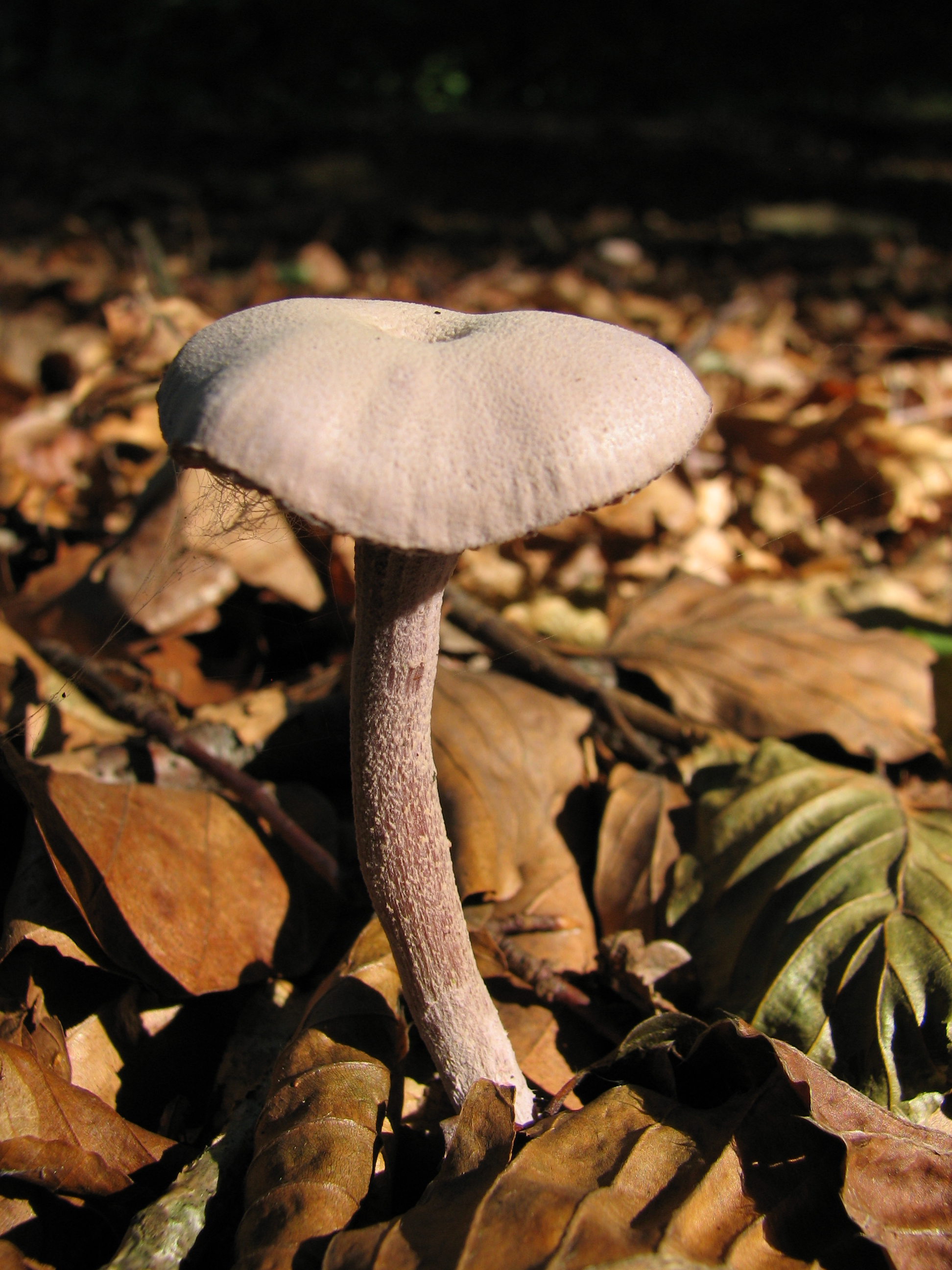 mushroomLatina: Laccaria amethystina